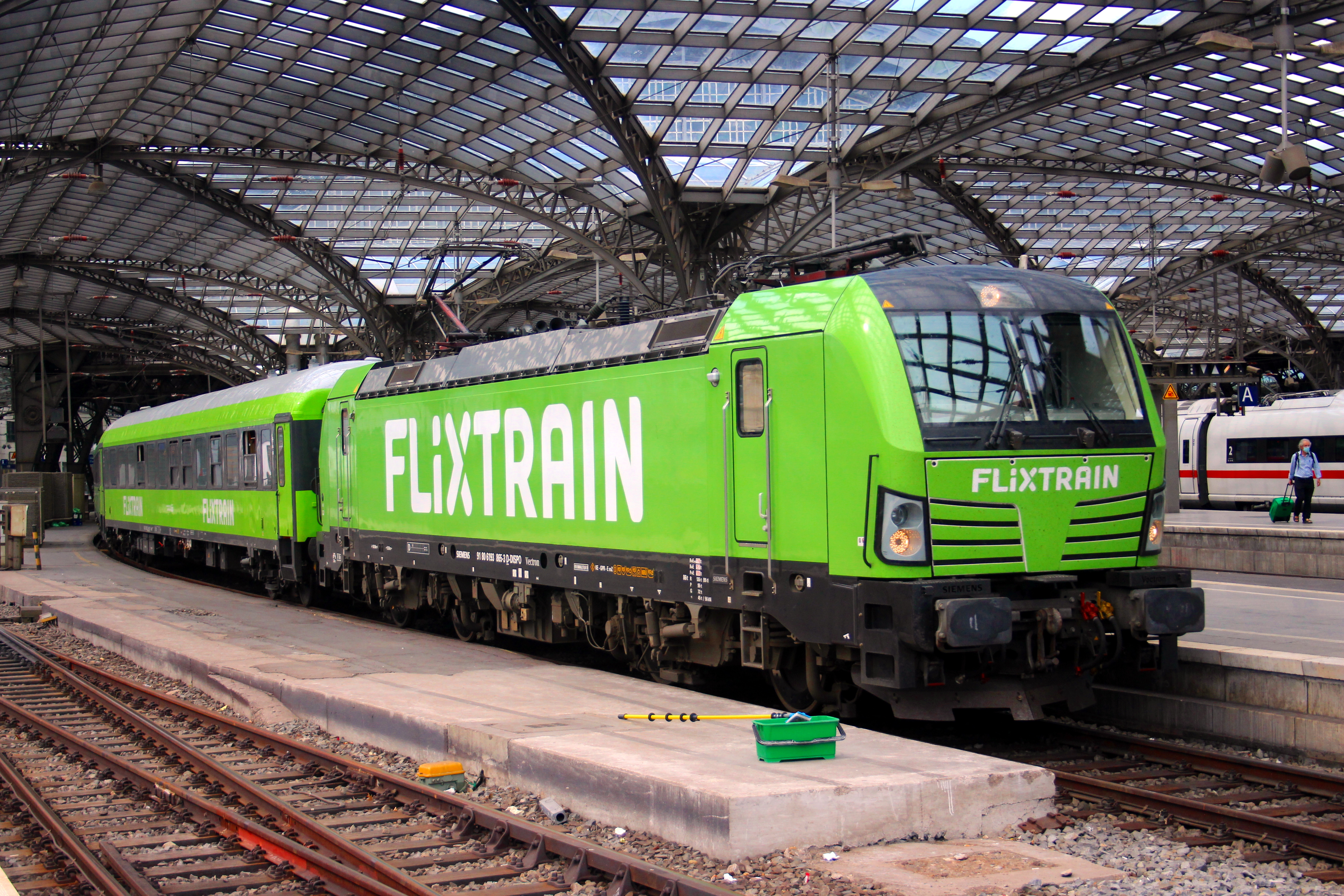 The Flixtrain service from Aachen to Berlin departs Köln Hbf. At the front is a modern Siemens Vectron electric locomotive, with some recently refurbished carriages in tow.